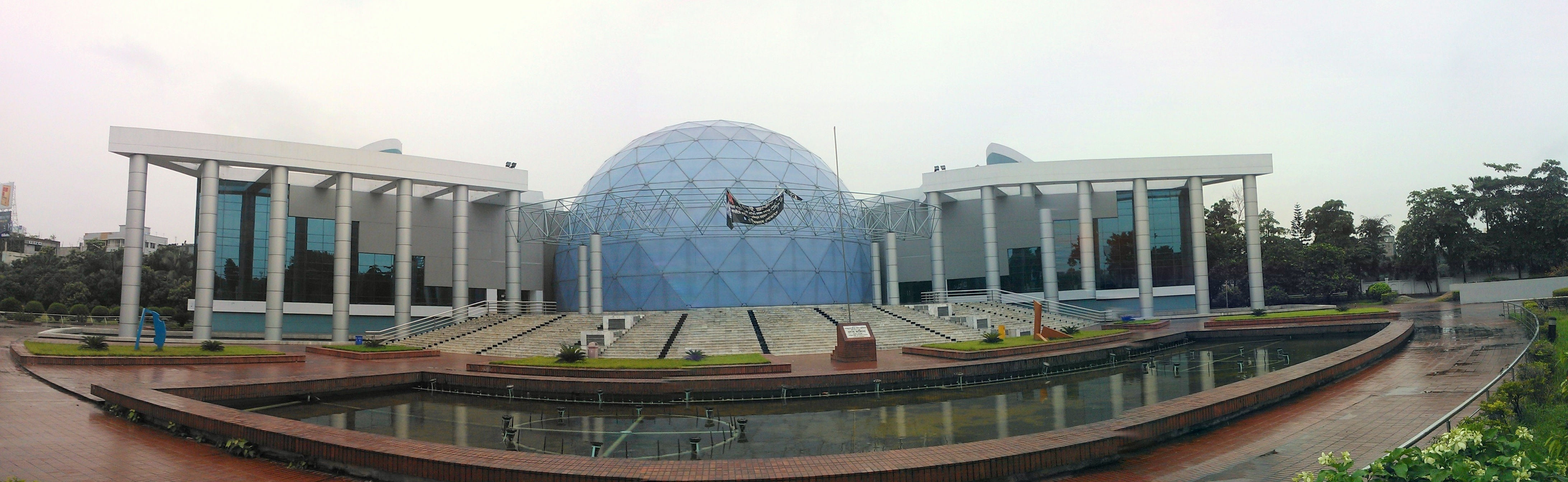 Bangabandhu Sheikh Mujibur Rahman Novo Theatre, Dhaka.